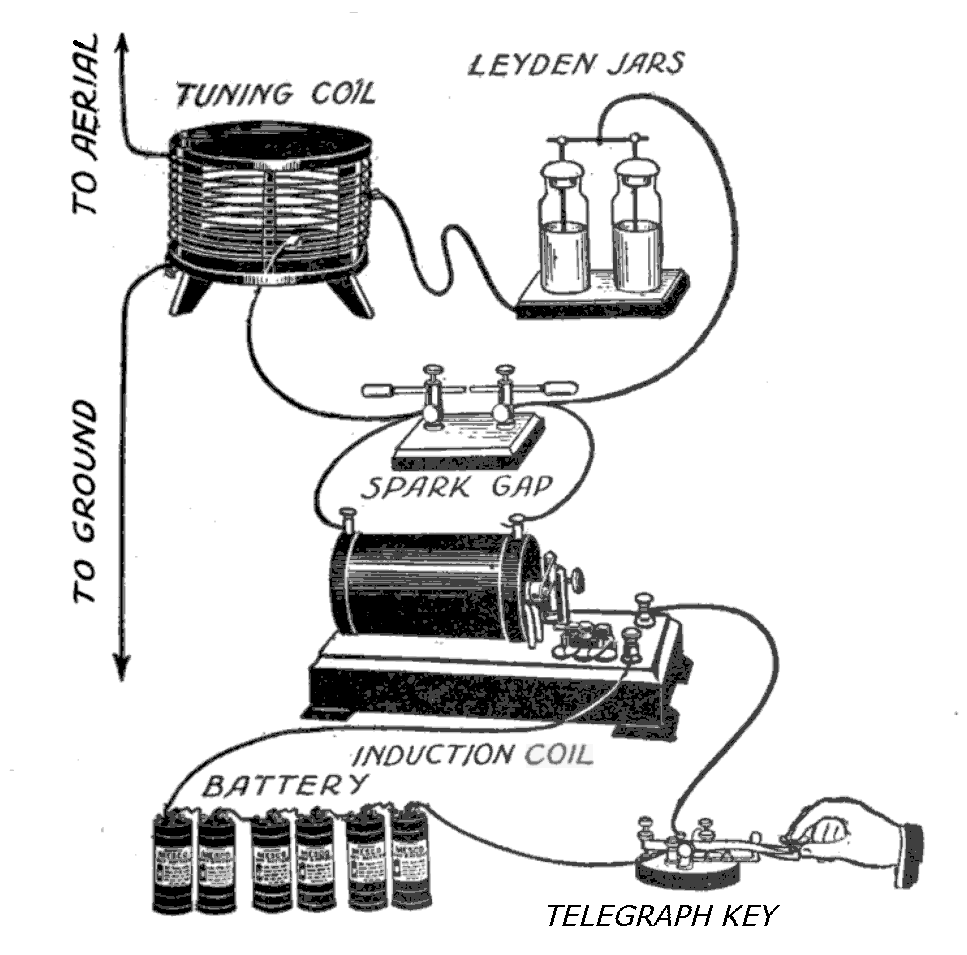 Diagram of a spark-gap transmitter, the first widely used type of radio transmitter, used to send Morse code signals during the "wireless telegraphy" era between 1900 and 1920. This example, from a 1917 boy's handcrafts book, shows a typical low power set that was homemade by radio amateurs and hobbyists of the time. Alterations to image: removed caption and added label to telegraph key.